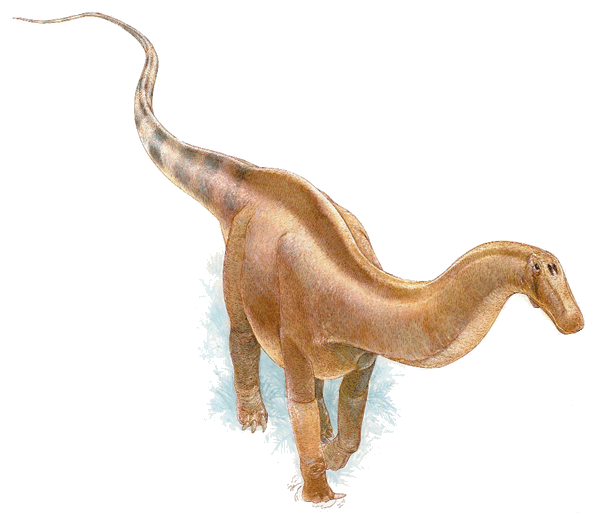 Supersaurus sketch by Jim Robins (called Apatosaurus).